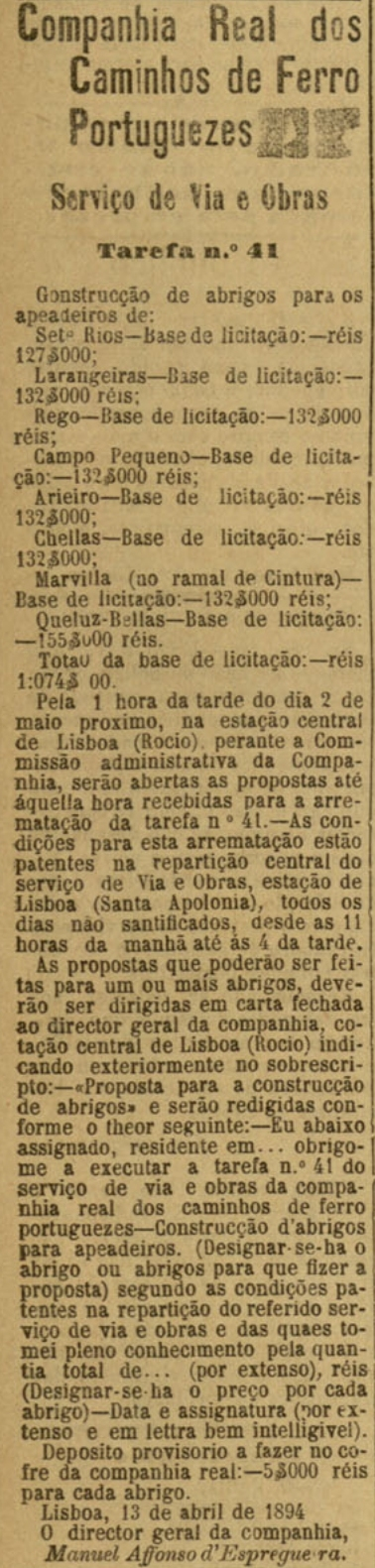 Public announcement of Companhia Real dos Caminhos de Ferro Portugueses (Royal Company of Portuguese Railways), about the opening of the bids for the construction of shelters in several halts in the city of Lisbon. This image was published on the Diario Illustrado newspaper No. 7563, of 15th April 1894, and scanned by the Biblioteca Nacional de Portugal.